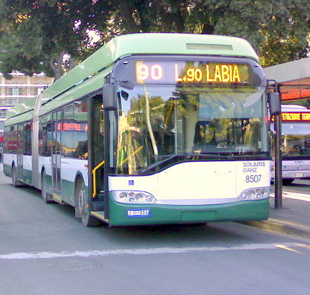 Ganz-Solaris Trollino 18 trolleybus in Rome, Italy. Built 2004.